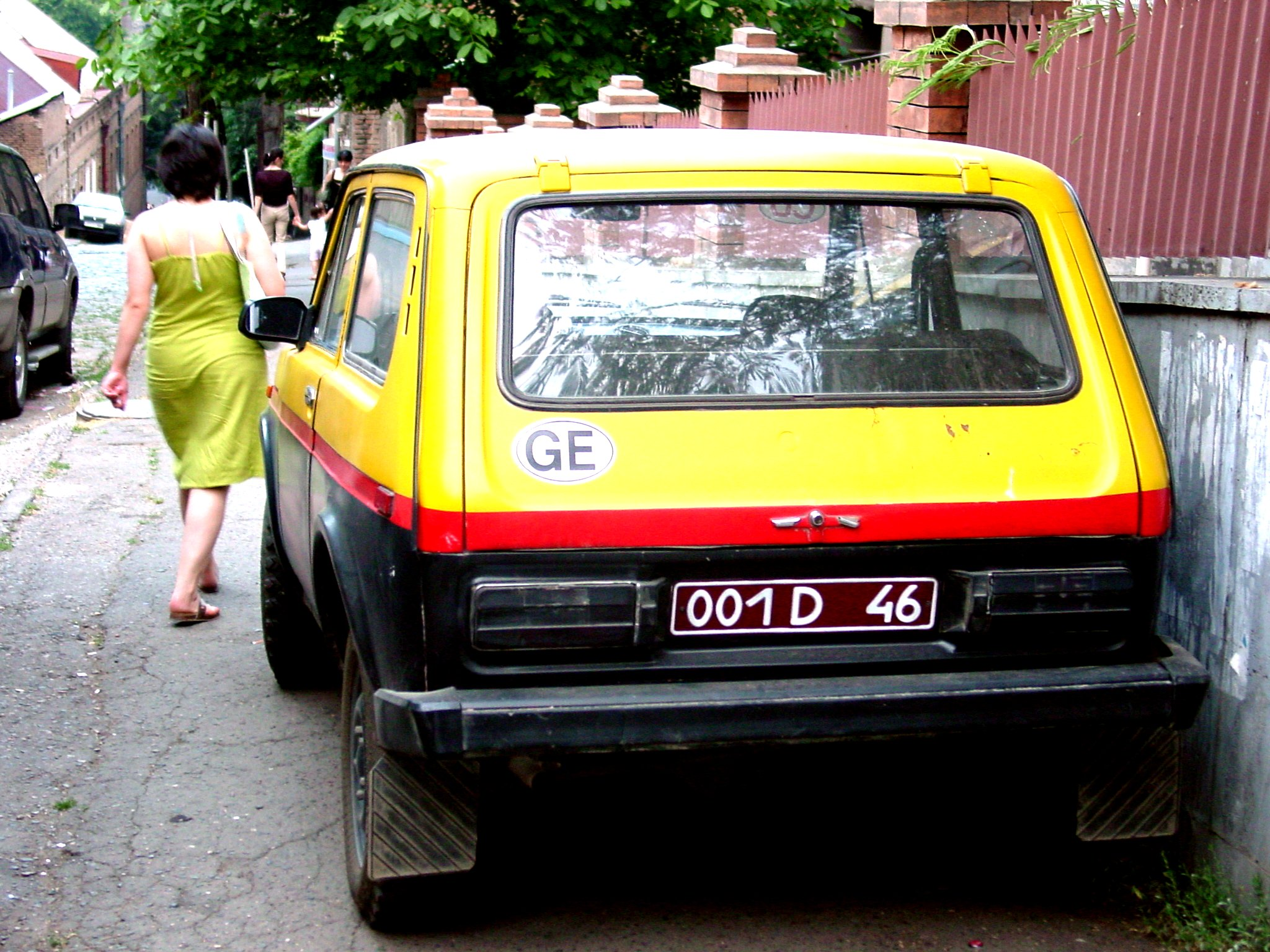 Lada Niva of the German embassy with Georgian diplomatic license plates in Tbilisi, Georgia. The car was previously used by the wife of the German ambassador to Georgia, still belongs to the embassy, but not sure who drives it now. It was sitting in front of Goethe Institute during the Germany-Sweden match